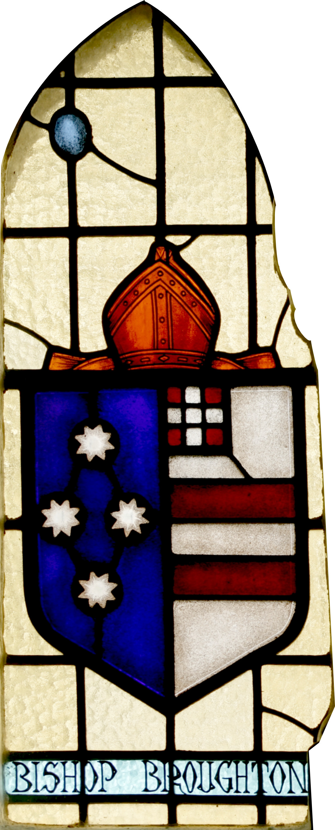 Stained glass windows in the entrance porch to St. John's Anglican Church, Ashfield, New South Wales (NSW). This left panel depicts the Coat of Arms of Bishop William Grant Broughton.